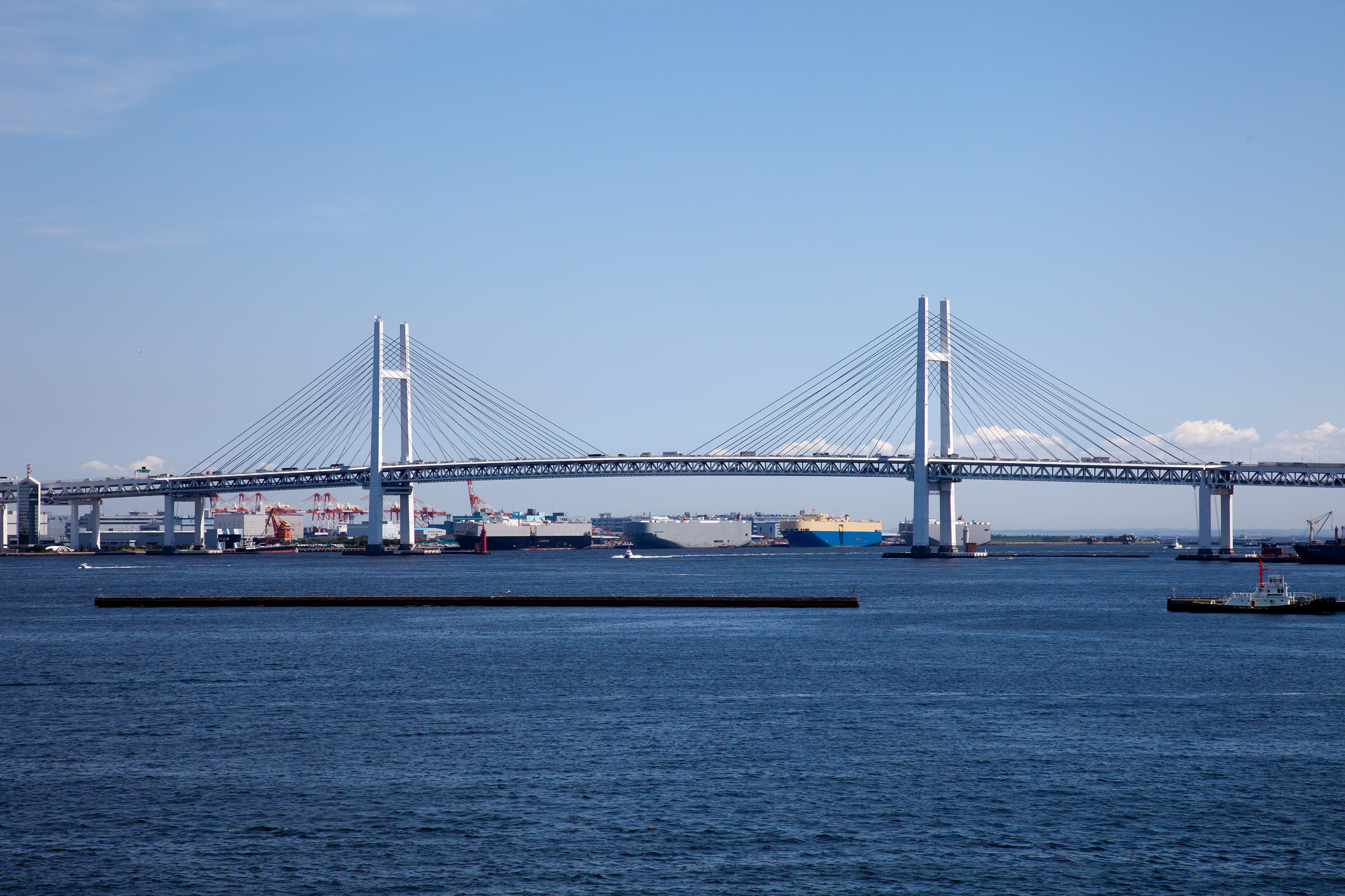 YOKOHAMA BAY BRIDGE